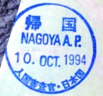 Immigration of Nagoya Airport. Immigration stamp of Japan. This stamp is pressed on Japanese passports when return to Japan